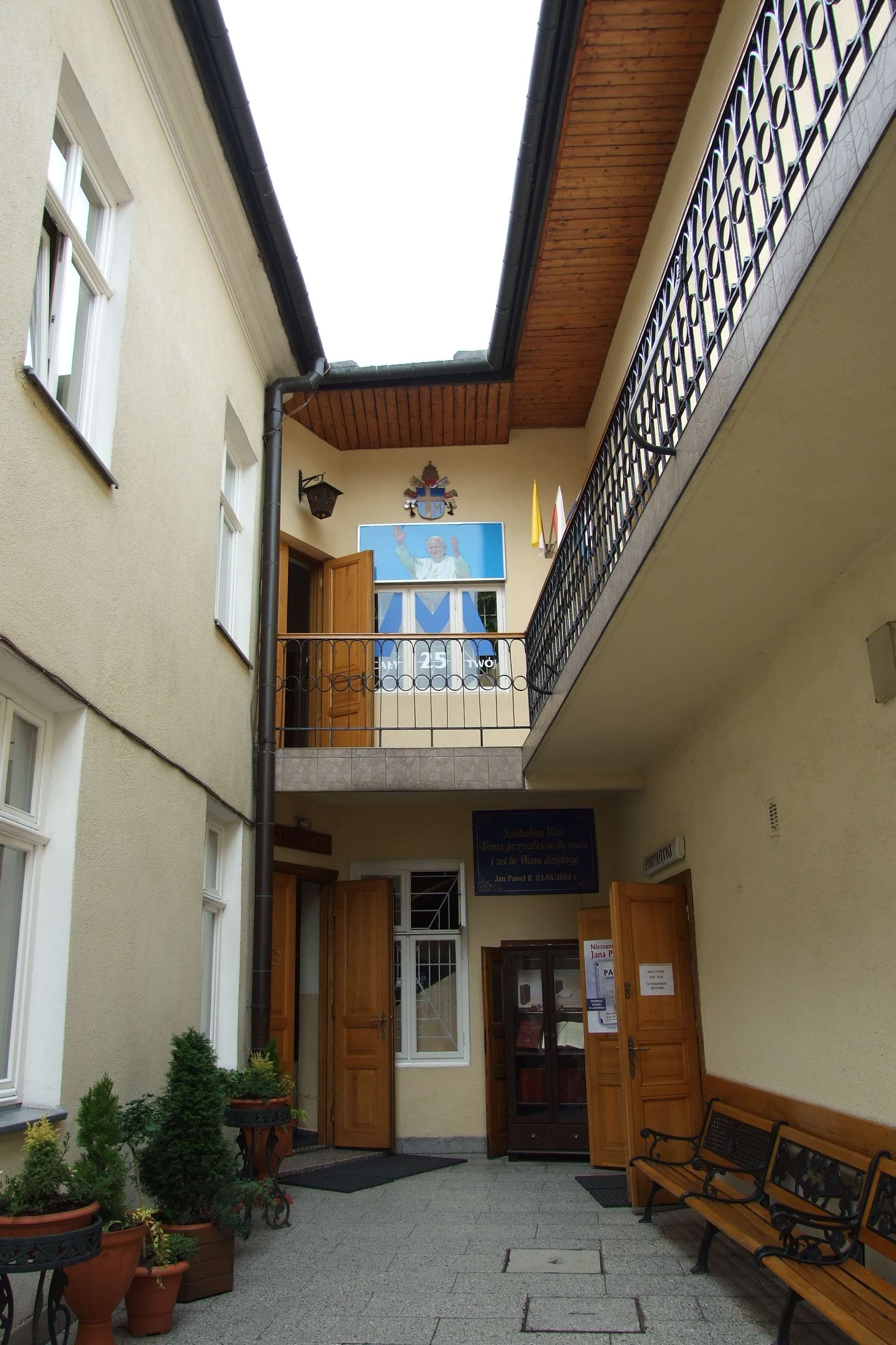 The native home of the Holy Father John Paul II